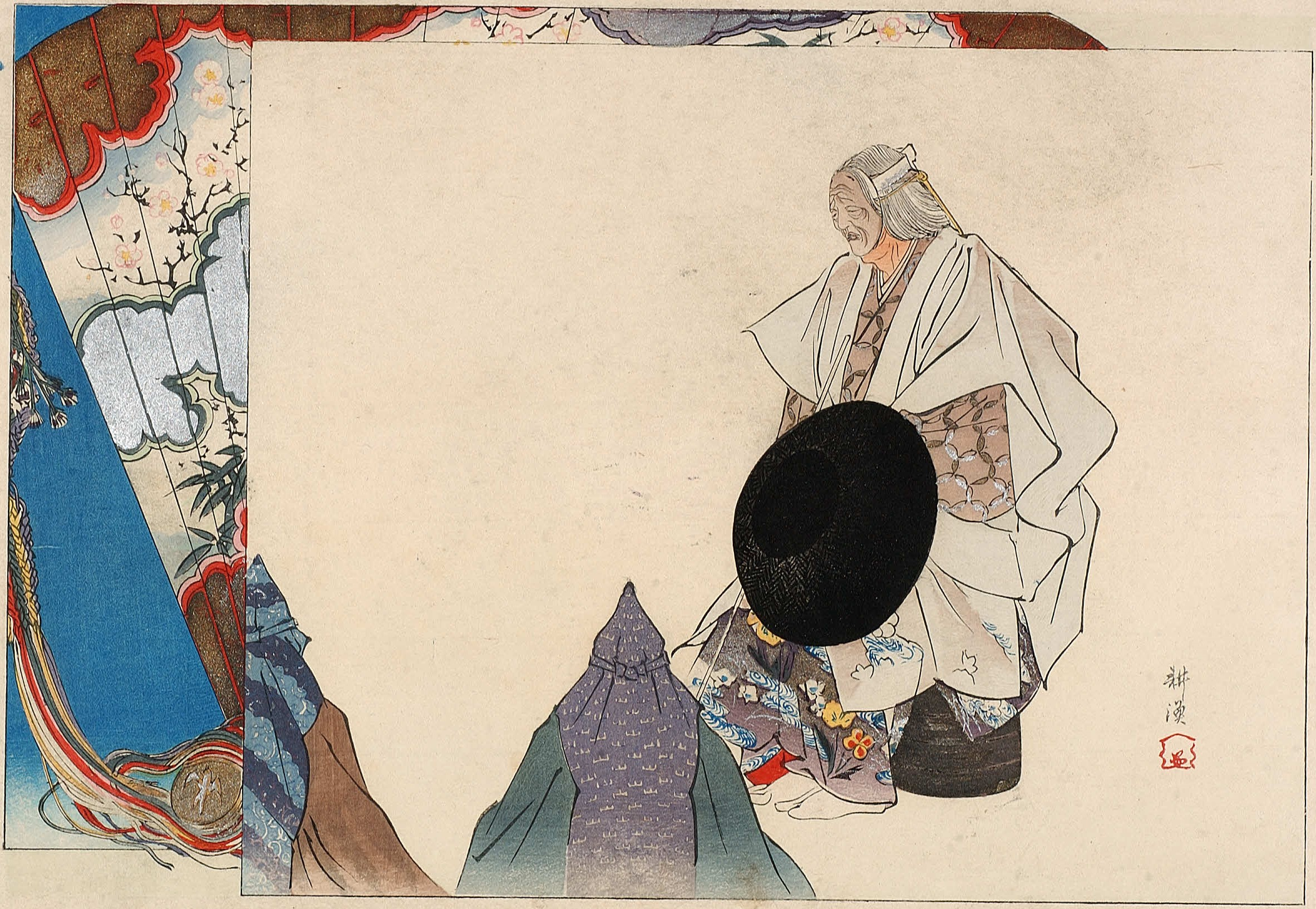 Scene from Nô-play "Sotoba Komachi"